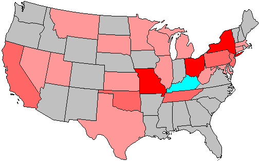 Summary of party change of U.S. house seats in the 1920 House election. Stripes indicate a tie between the gains of two or more parties. Legend: 6+ Democratic seat pickup 3-5 Democratic seat pickup 1-2 Democratic seat pickup 1-2 Republican seat pickup 3-5 Republican seat pickup 6+ Republican seat pickup 1-2 Progressive seat pickup 1-2 Farmer-Labor seat pickup 1-2 Socialist seat pickup Note: years ending in 2 may have inconsistent results due to redistricting.